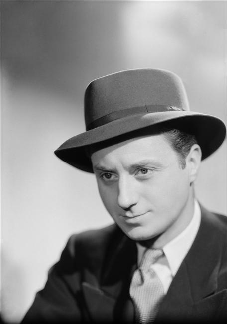 Studio photo